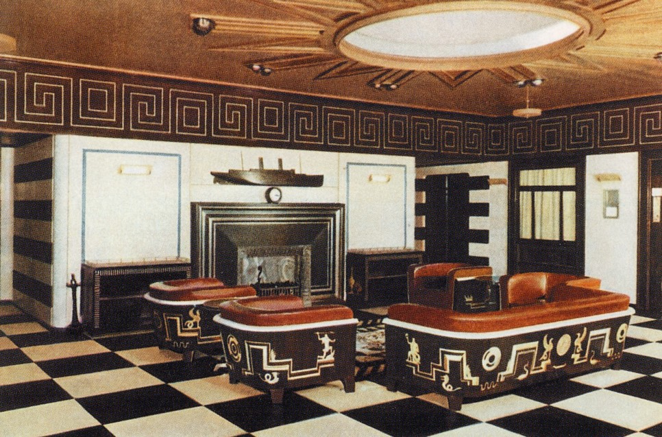 Ocean liner "M/S Kungsholm" first class smoke room